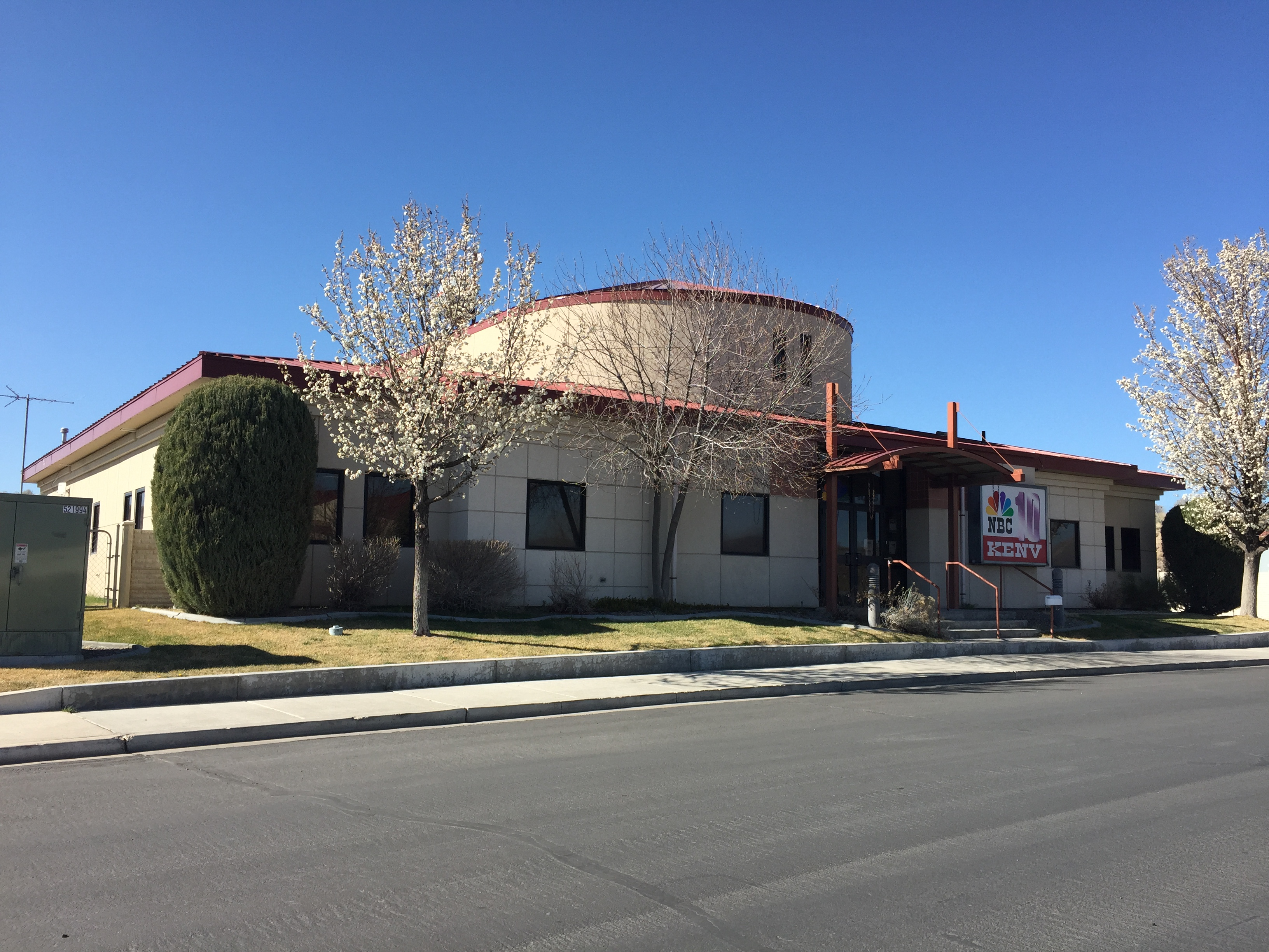 The front of the KENV NBC 10 studios at Great Basin College in Elko, Nevada